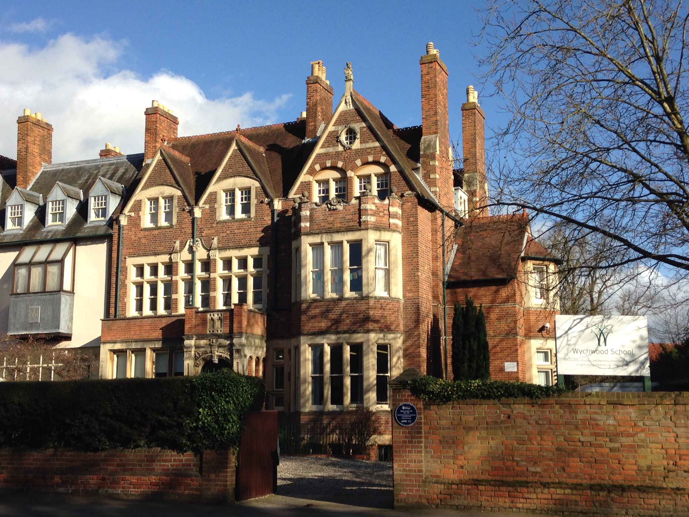 Dame Honor Fell , 1900-1986, biologist who increased our understanding of rheumatoid arthritis, studied at this school Google Street View (This image represents an Open Plaques entry)